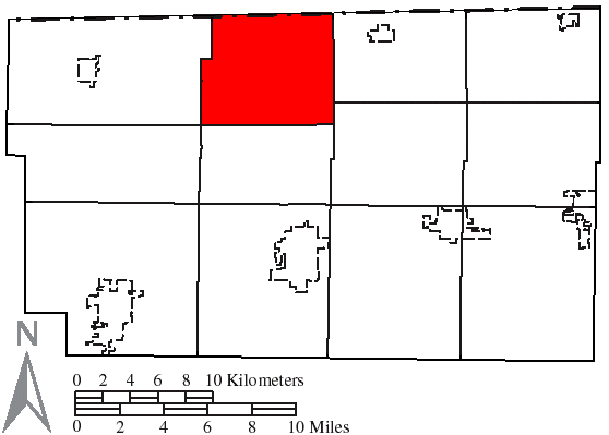 Made by the US Census and modified by myself